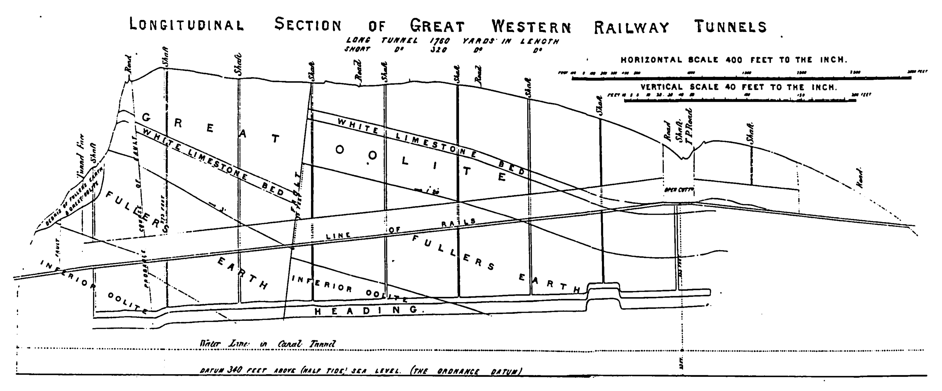 Geological cross-section of the railway tunnels at Sapperton, Gloucestershire, UK.